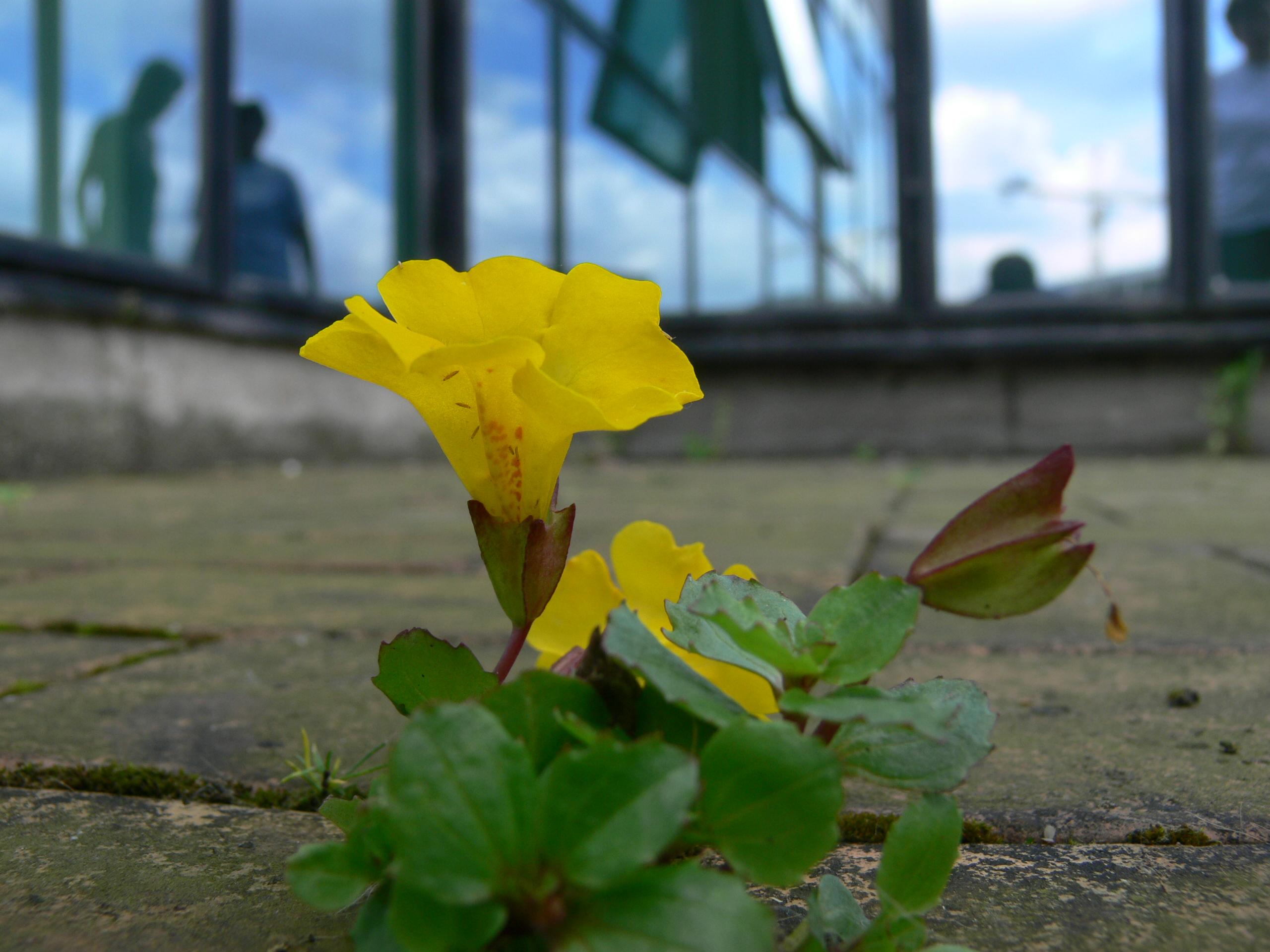 Common Large Monkey-flower